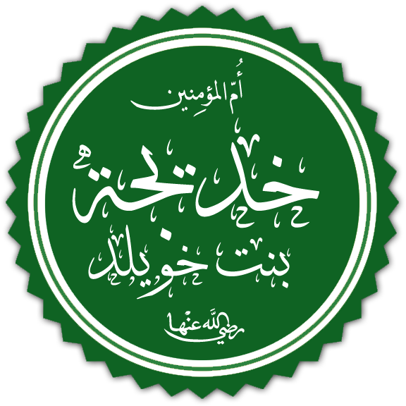 Top small written islamic phrase "Umm ul Muminin"(Mother of the believers) then in centre Big written "Khadijah" and bottom small written islamic honoric (phrase or salawat) "Radhi allahu anha".